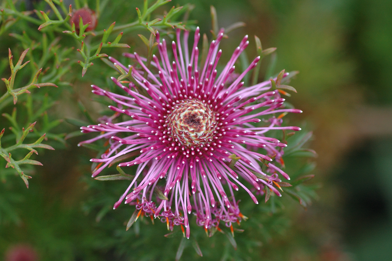 Photographed at the San Francisco Botanical Garden at Strybing Arboretum